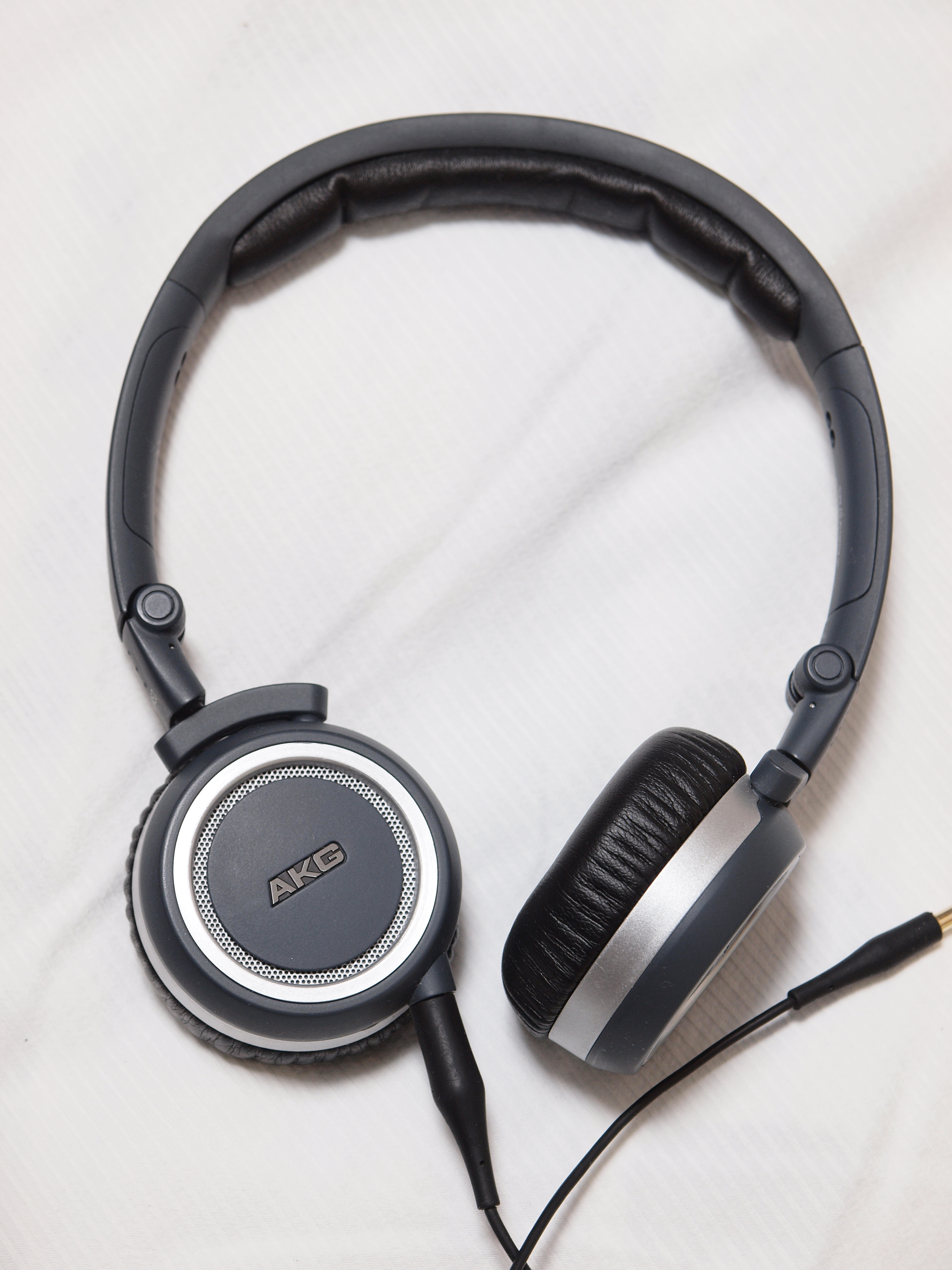 AKG K450